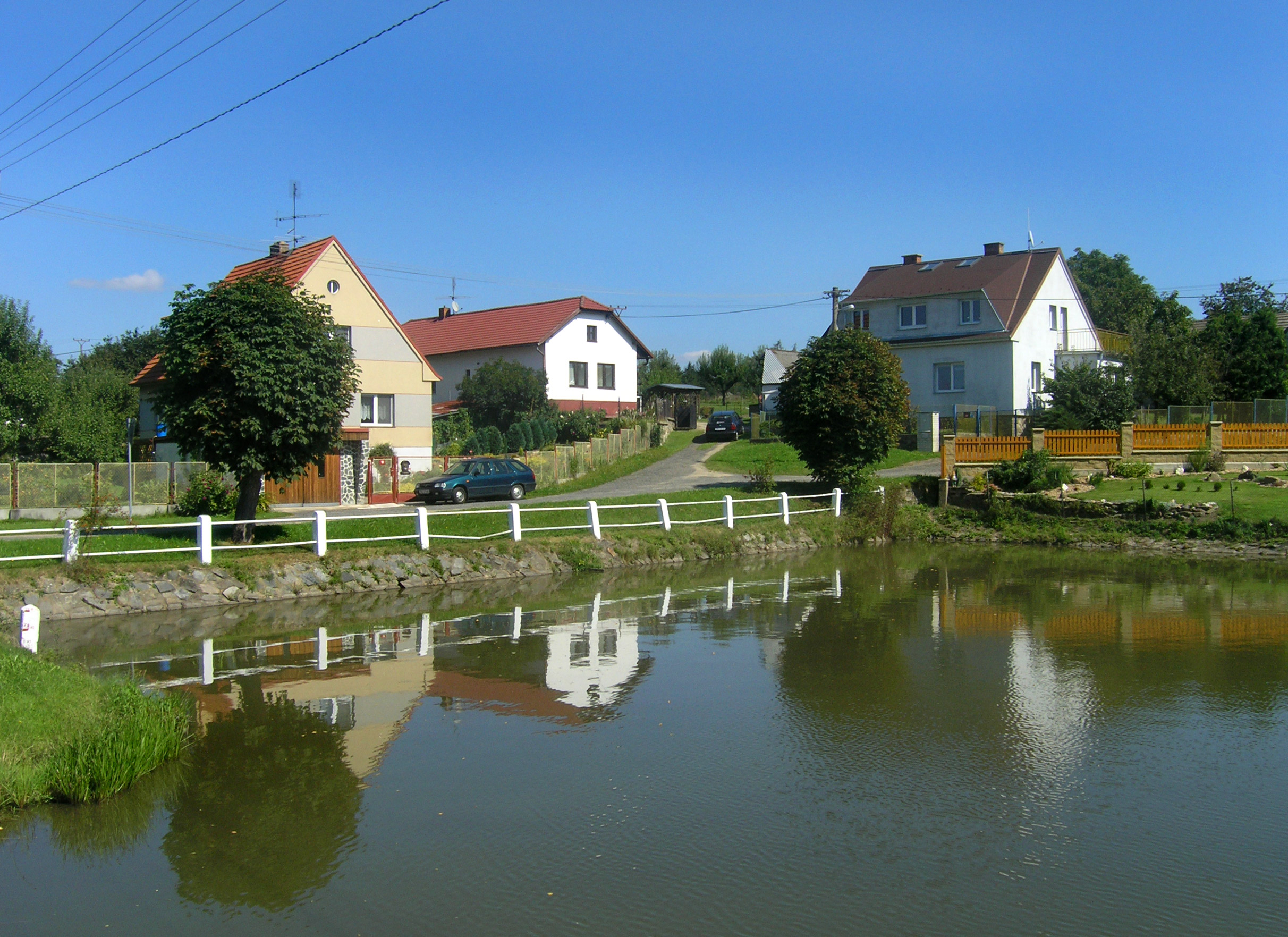 North part of Lom village, Czech Republic